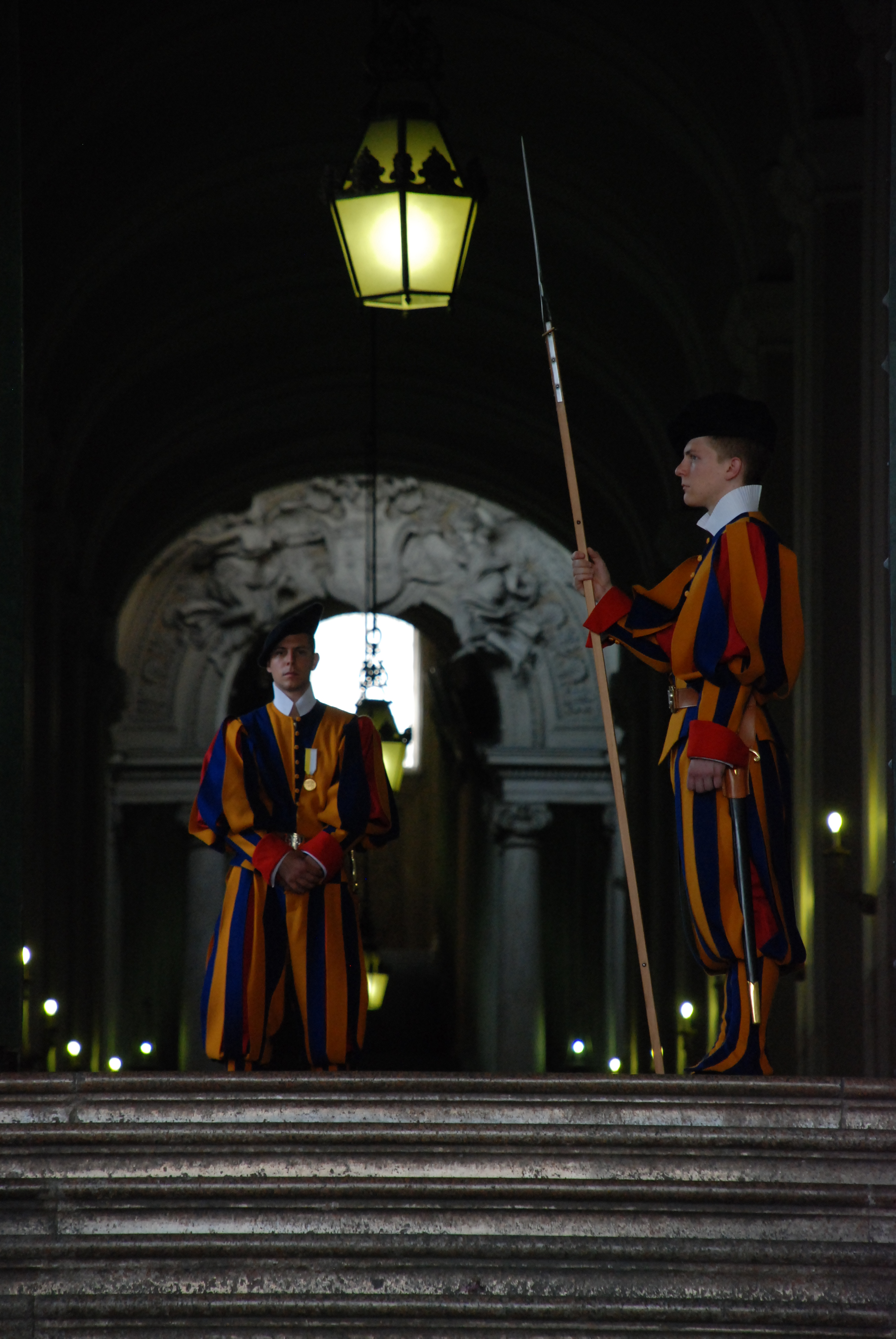 Vatican Guards on duty.